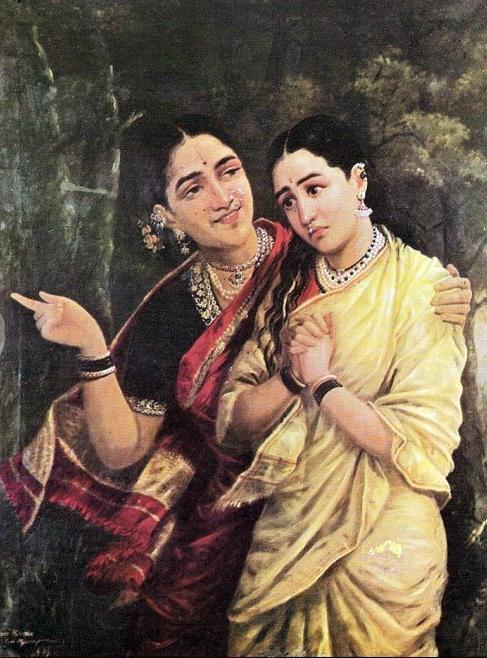 Draupadi in the guise of Syrendri taken to forest by Virata's wife Simhika, who plans to kill her.